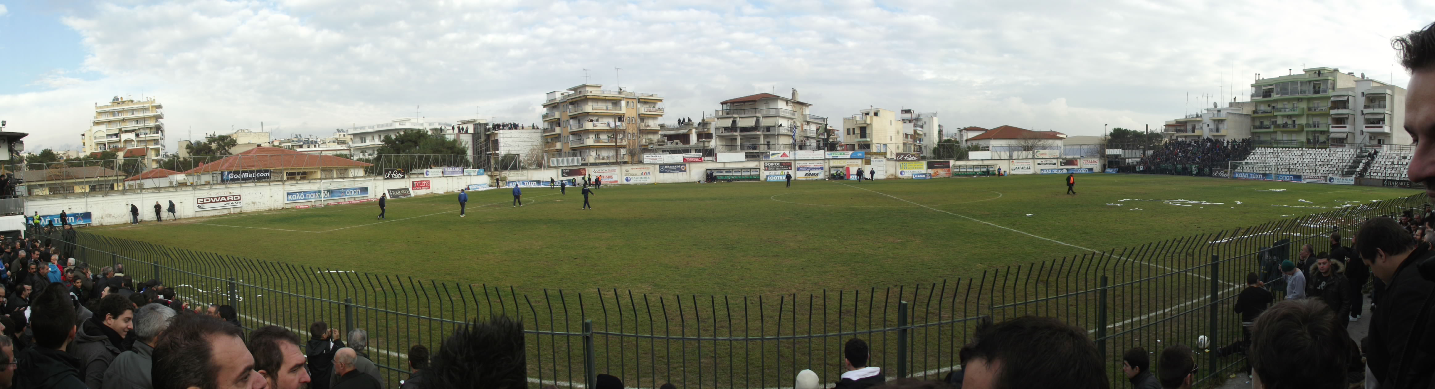 Panoramic photo of Evosmos stadium during the game Agrotikos Asteras - Panathinaikos